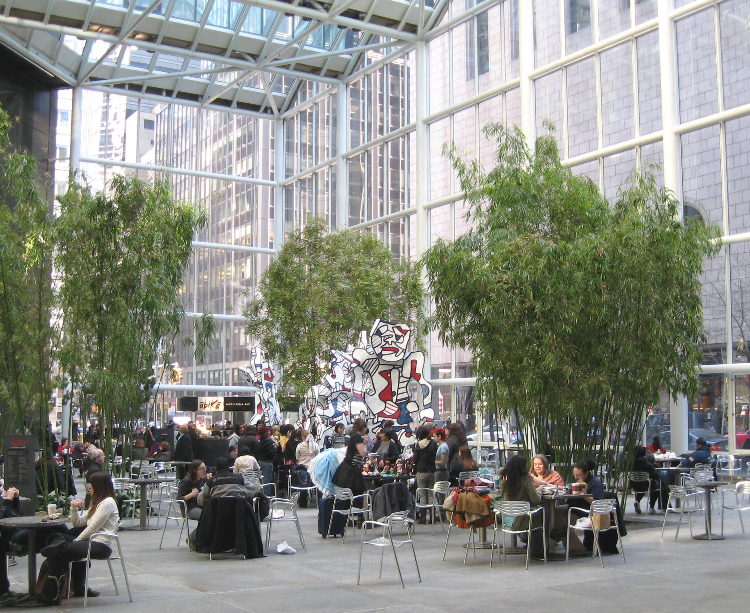 Looking southeast in the public sitting area of IBM Building on 56th and Madison in Manhattan on a sunny afternoon. Architect Edward Larrabee Barnes.